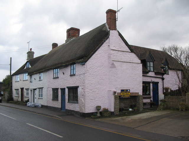 Thatched Cottage at Stalbridge. A view looking south across the A371 at Stalbridge to thatched cottage in a delicate shade of pink.